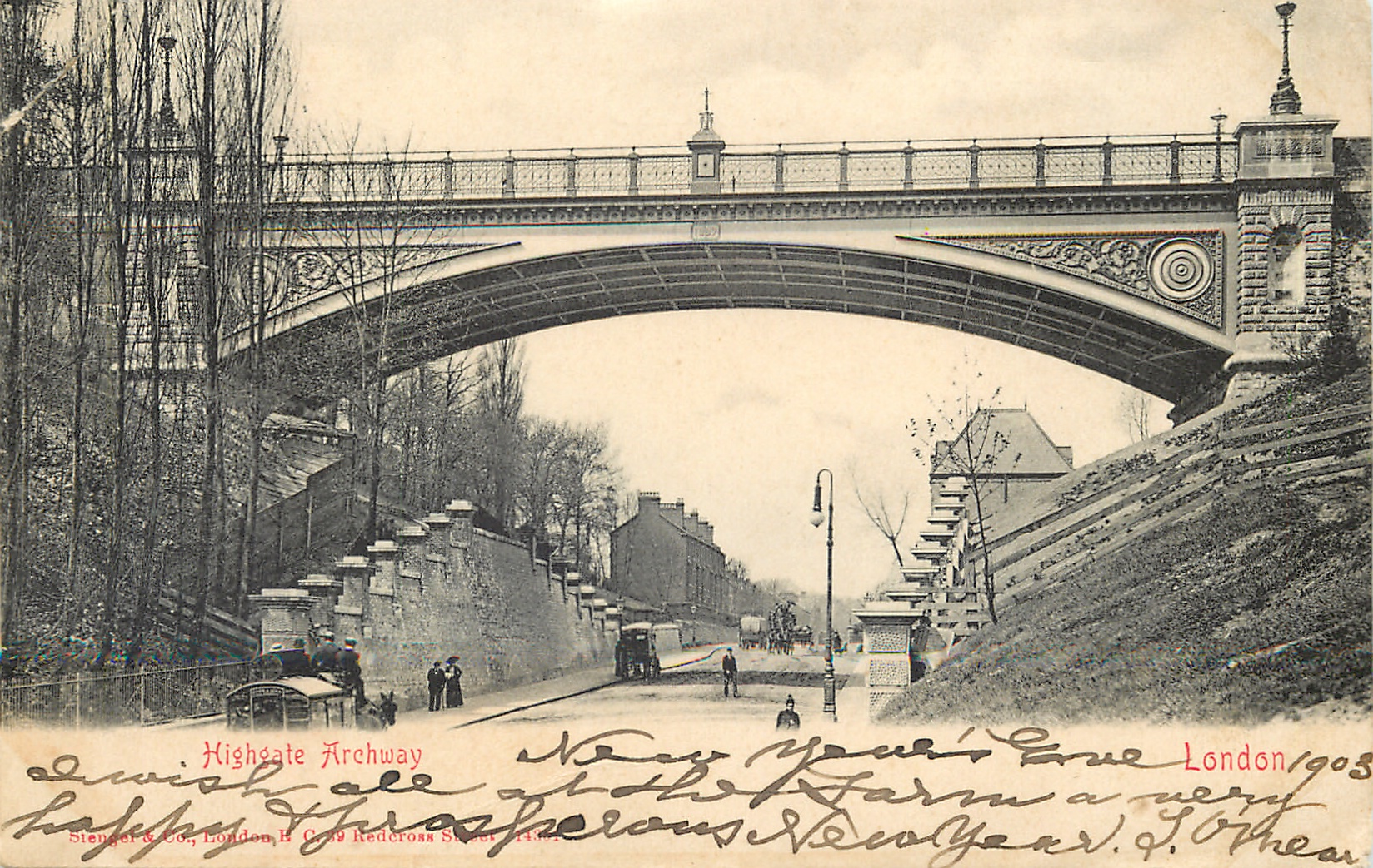 Highgate Archway, London, Stengel & Co postcard, sent 1904